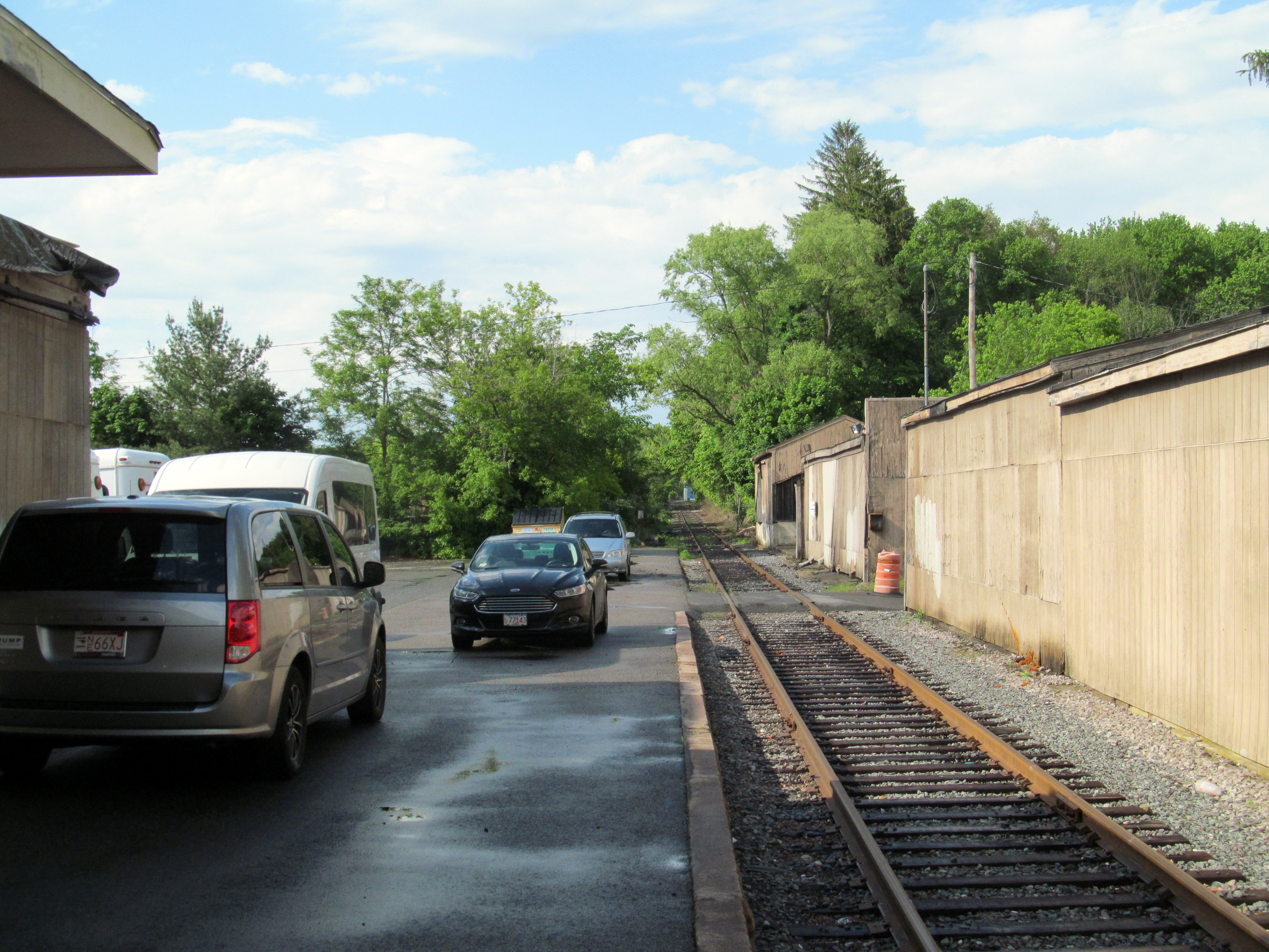 Site of the proposed MBTA platform at Dean Street station, photographed in June 2017